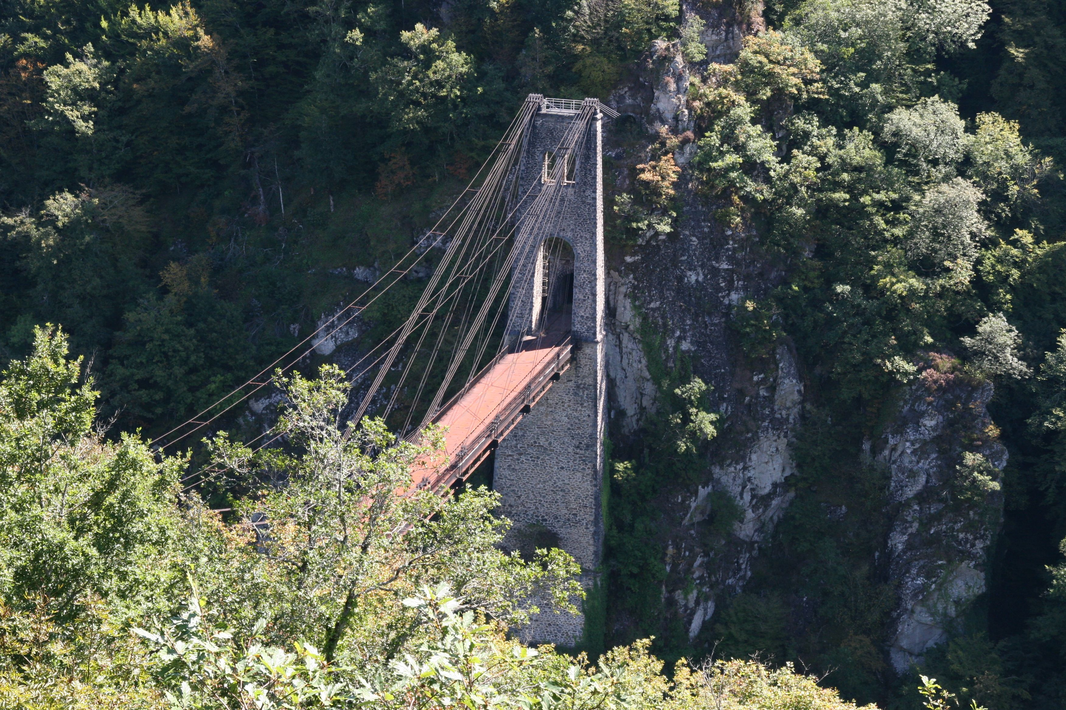 Viaduc des Rochers Noirs